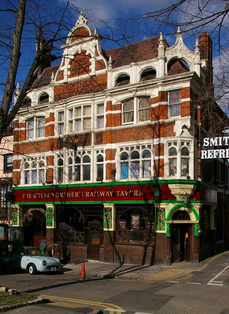 Great Northern Railway Tavern, Hornsey High Street Built in 1897, to the designs of architects Shoebridge & Rising.